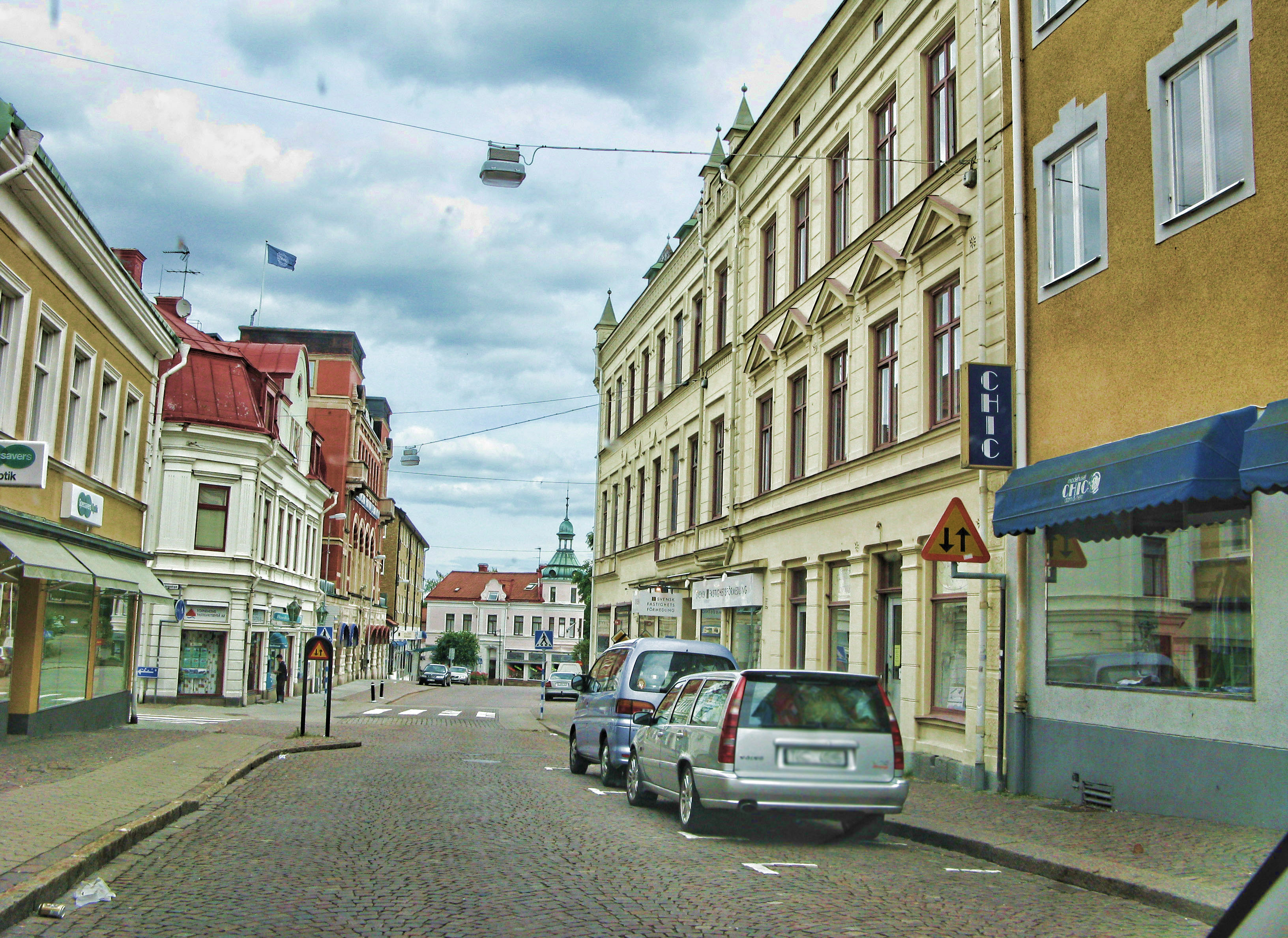 Street of Köpmangatan in Oskarshamn, Sweden.